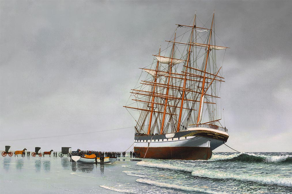 From a painting by Antonio Nicolo Gasparo Jacobsen (1850-1921). The Scottish barque was stranded on Point Pleasant Beach, 12th February 1900. The vessel was en route from Cape Town to New York when blown ashore by high winds in poor visibility. She was refloated 3 days later. The master was Mr. I. Webster. The vessel was eventually wrecked at South Rock, County Down, Ireland on 7 November 1916.